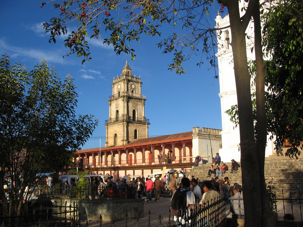 Palace of the Departmental Governor in Santa Cruz del Quiché, Guatemala (December 2007).